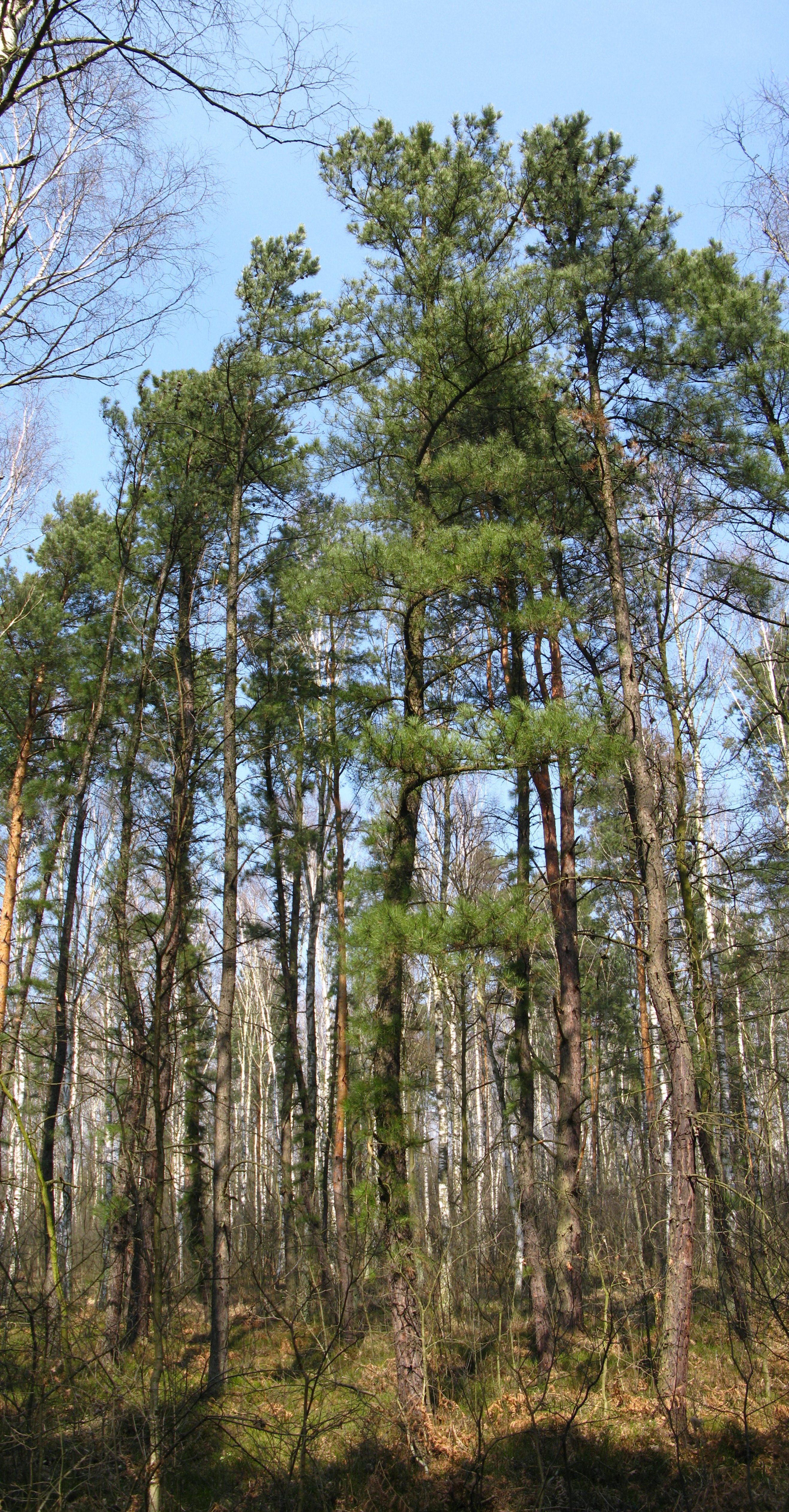 Pinus rigida - in the foreground with a dark bark. Pinus sylvestris - Behind P.rigida with orange bark; Drewnica Forests in Poland